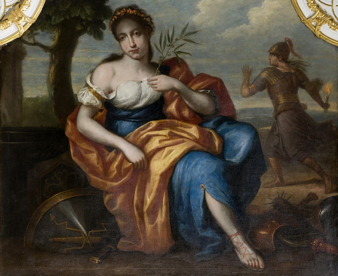 Allegory of Peace (1719) dessus-de-porte painting in the Salle du Conseil communal of the Liège townhall, Liège, Belgium